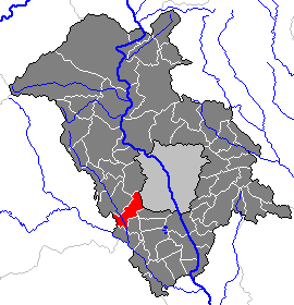 This map shows the area of the Gemeinde (municipality) Attendorf in the Bezirk (district) Graz-Umgebung, Styria, Austria.